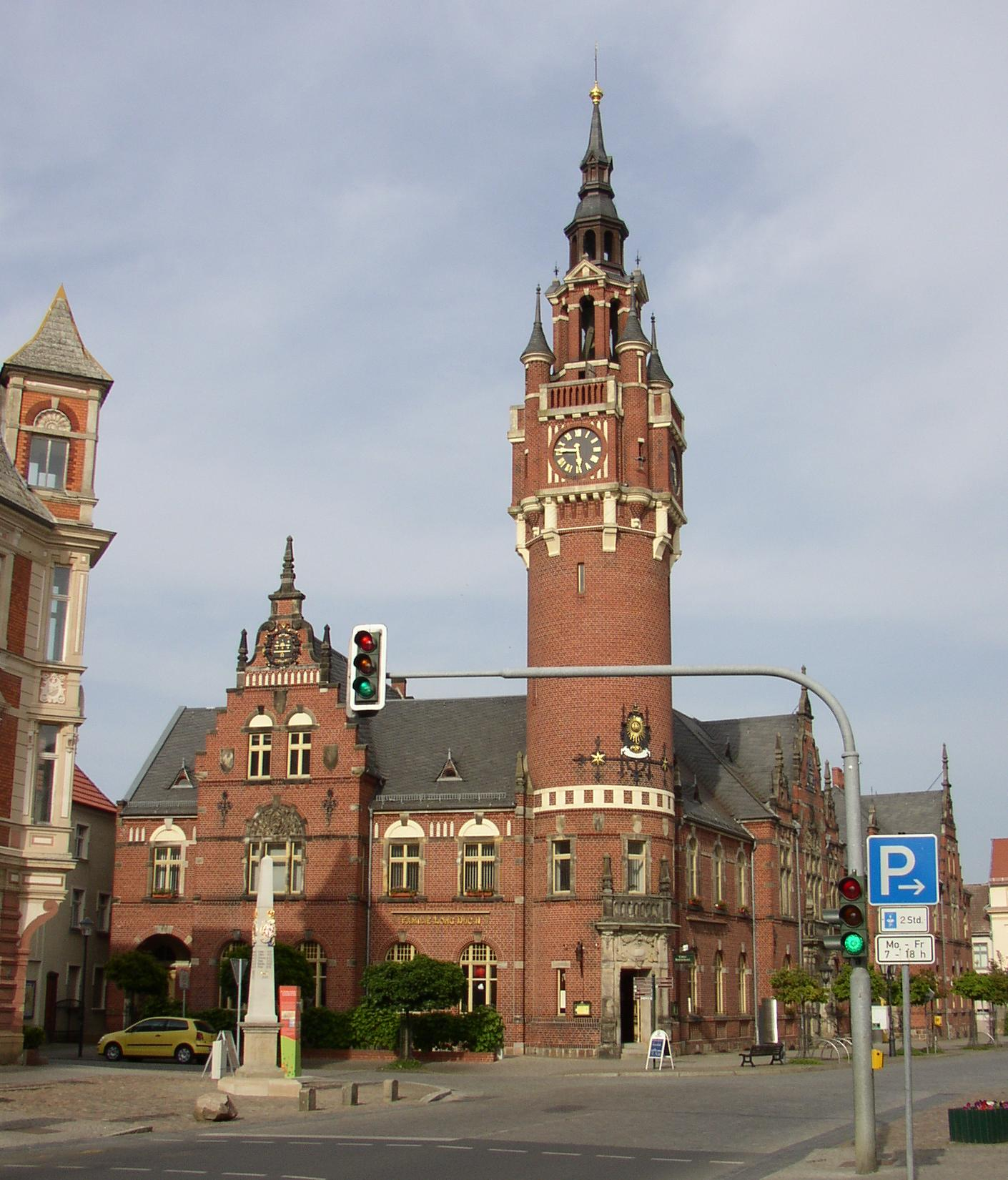 Town hall in Dahme in Brandenburg, Germany